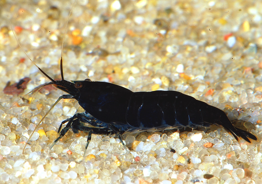 Caridina cf. cantonensis black tiger is a freshwatershrimp with black color. It seems to be a selected breed of mutated tigershrimp, maybe from the blue tigers.